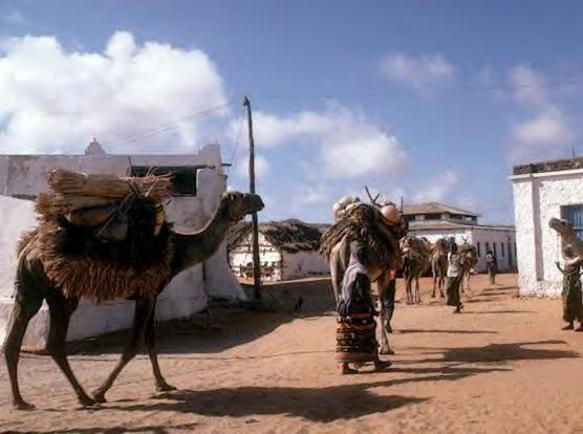 Nomad Camels in the town of Gabiley